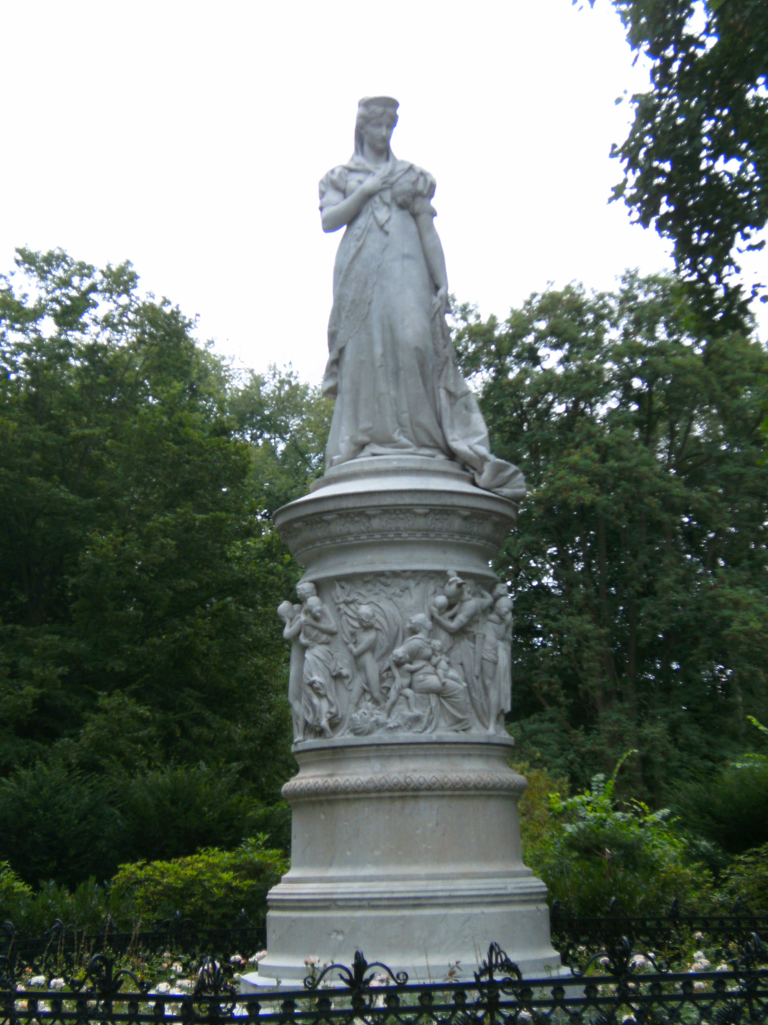 Park Großer Tiergarten in Berlin, Großer Weg/Ahornsteig: isle Luiseninsel with memorial Luisendenkmal.